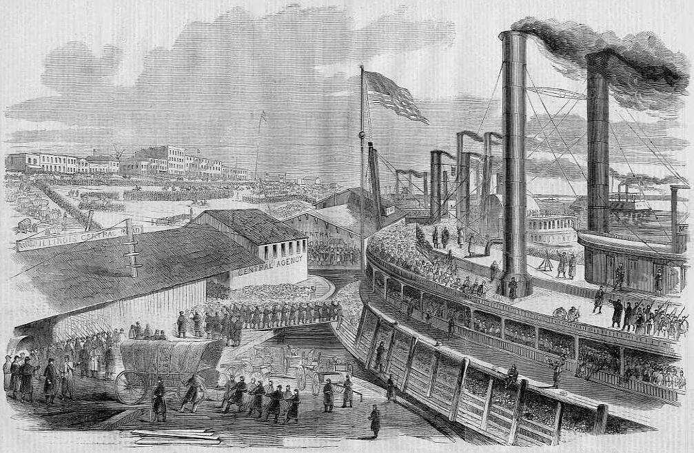 Embarkation of General McClernand's Brigade at Cairo -- the Advance of the Great Mississippi Expedition -- January 10, 1862, a wood engraving from a sketch by Alexander Simplot, published in Harper's Weekly, February 1, 1862.